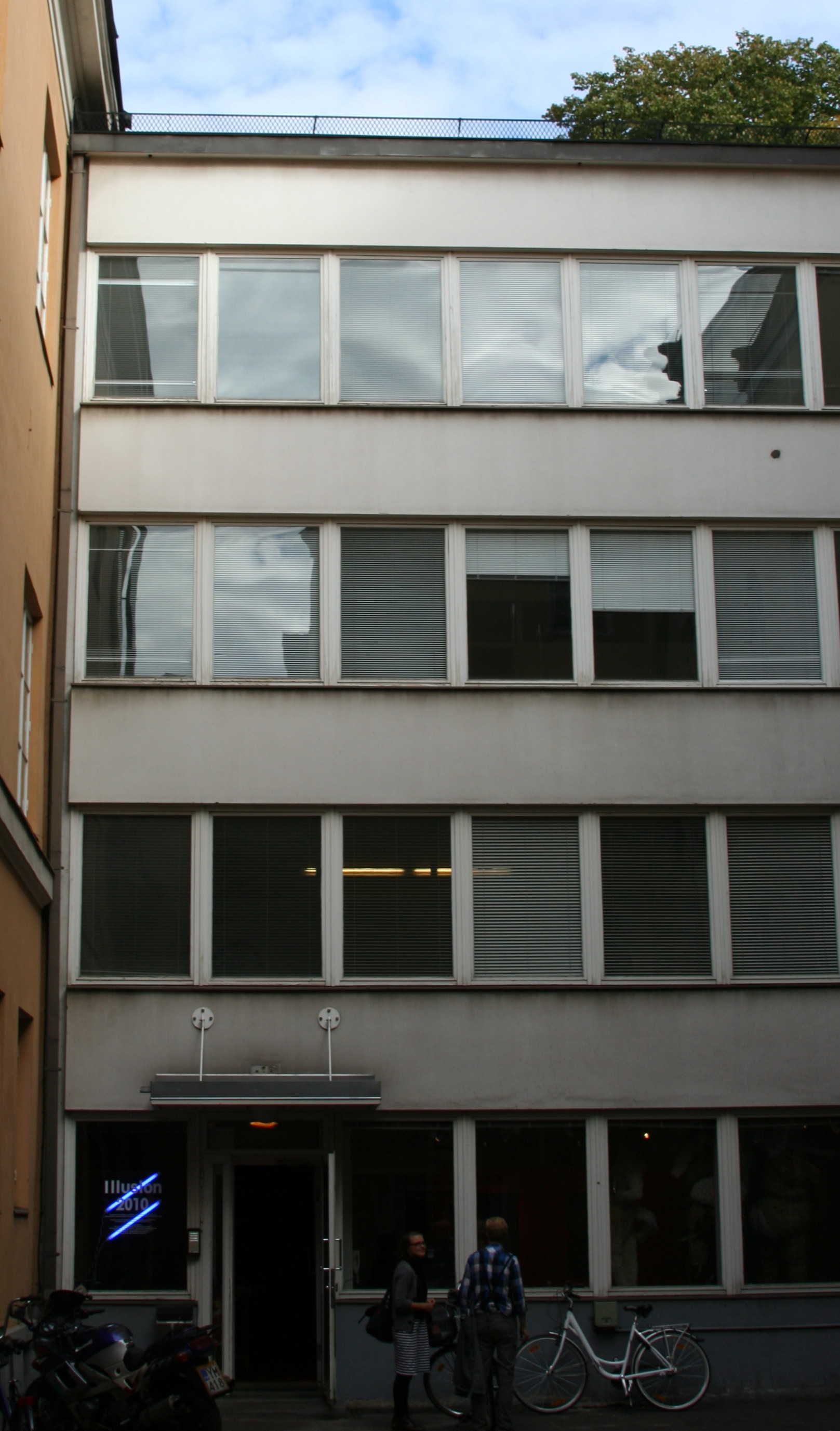 Remander building, annex, Helsinki, Finland. - Completed in 1962, to be demolished.